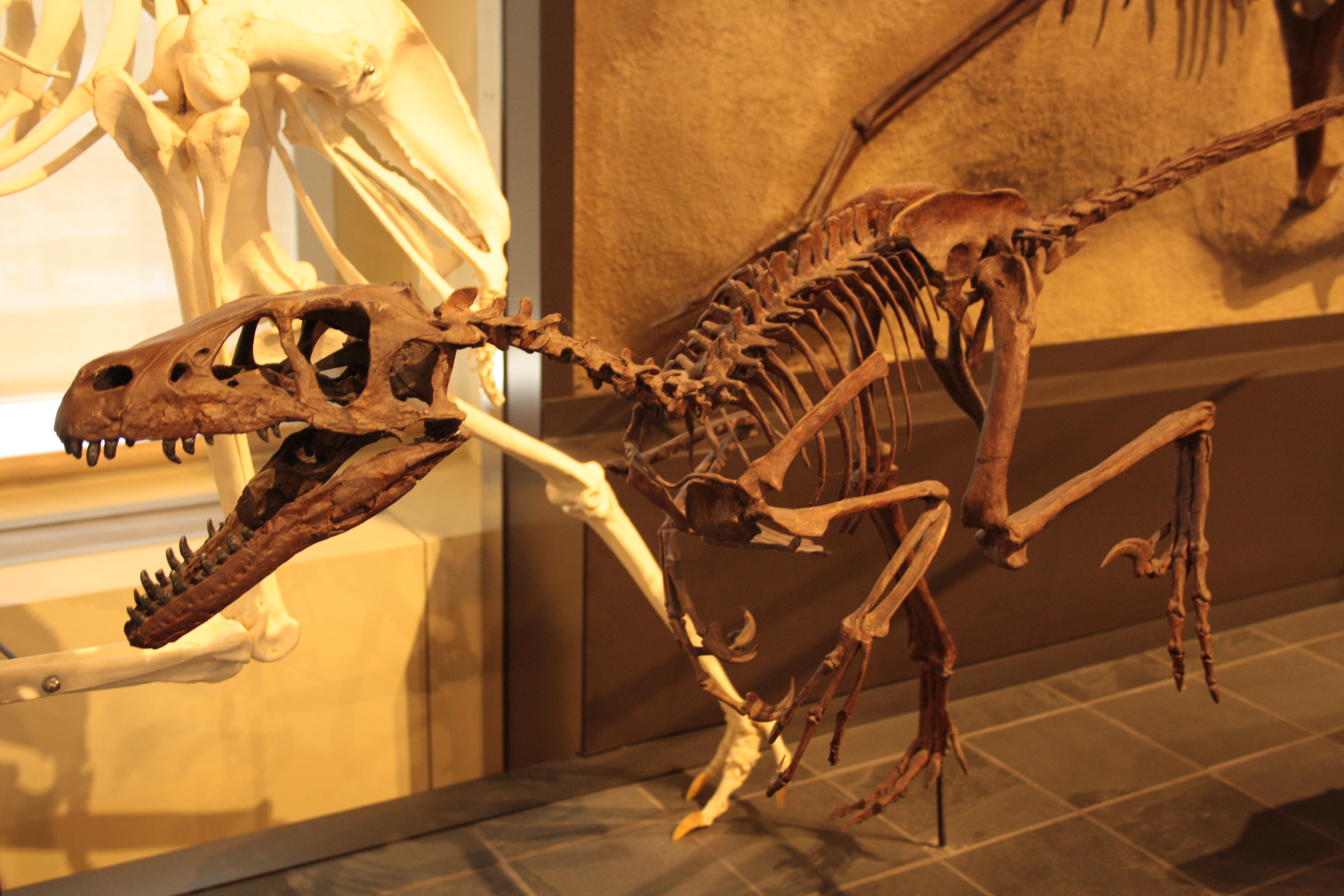 Dromaeosaurus, meaning "swift running lizard" is a genus of dinosaur that lived approximately 75 million years ago during the later part of the Cretaceous Period. (Ottawa, Canada, June 2015)